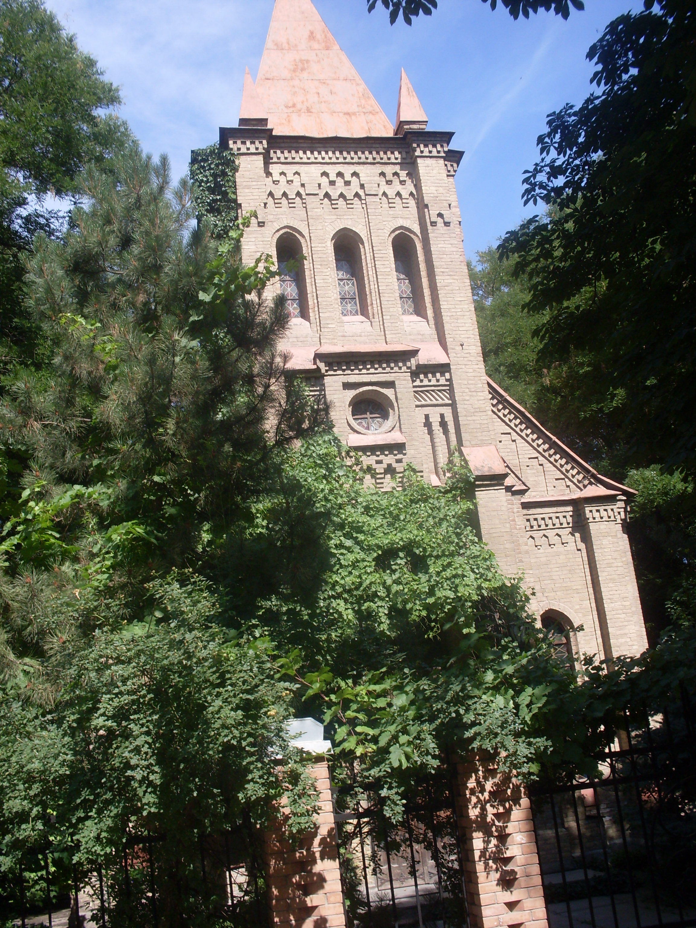 Evangelical Lutheran Church in Tashkent